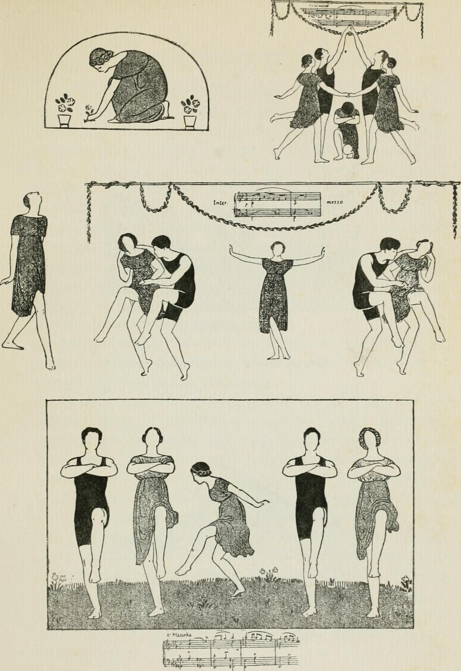 Title: The new spirit in drama & art Year: 1912 (1910s) Authors: Carter, Huntly Subjects: Theater Impressionism (Art) Publisher: London : F. Palmer Text Appearing Before Image: study, from the point of view ofpersonal development in its fundamental aspects and stages.From this point of view the study is one of great value.The concentration of observational and executive facultyrequired during the exercises demands participation of thesenses of hearing, of seeing, and of realisation of musculareffort under the strict control of the consciousness, the latterbeing absorbed, first in analysing, then in reconstructing,and finally in directing the external representation of theforms inwardly apprehended. Absolute attention for thetime being is imperative, though the form of attentiondemanded is radically different from that usually exacted inthe classroom. The latter is merely a state of passivitymaintained by the consciousness while presentations of onekind and another are thrust upon it by the instructor. Theattention that must be given in a lesson of rhythmicgymnastics is active and dynamic, ensuring an immediateintelligent response to whatever has been sensed. Text Appearing After Image: 124. The Dalcroze System of Dancing. Designs by M. Thhcncz.